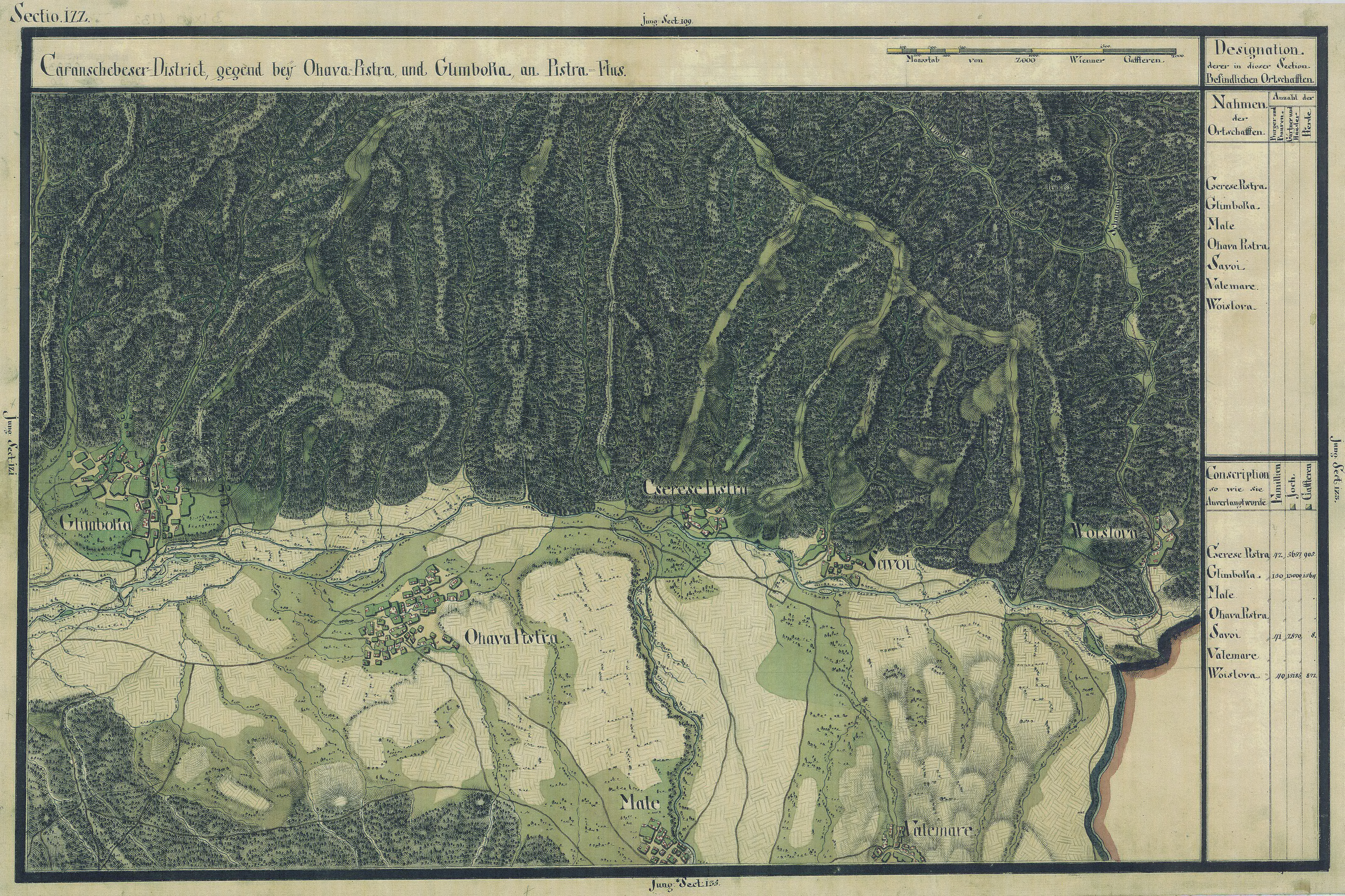 The Banat region in the cadastral maps: Josephinische Landesaufnahme, 1769-72. Josephinische Landaufnahme pg122